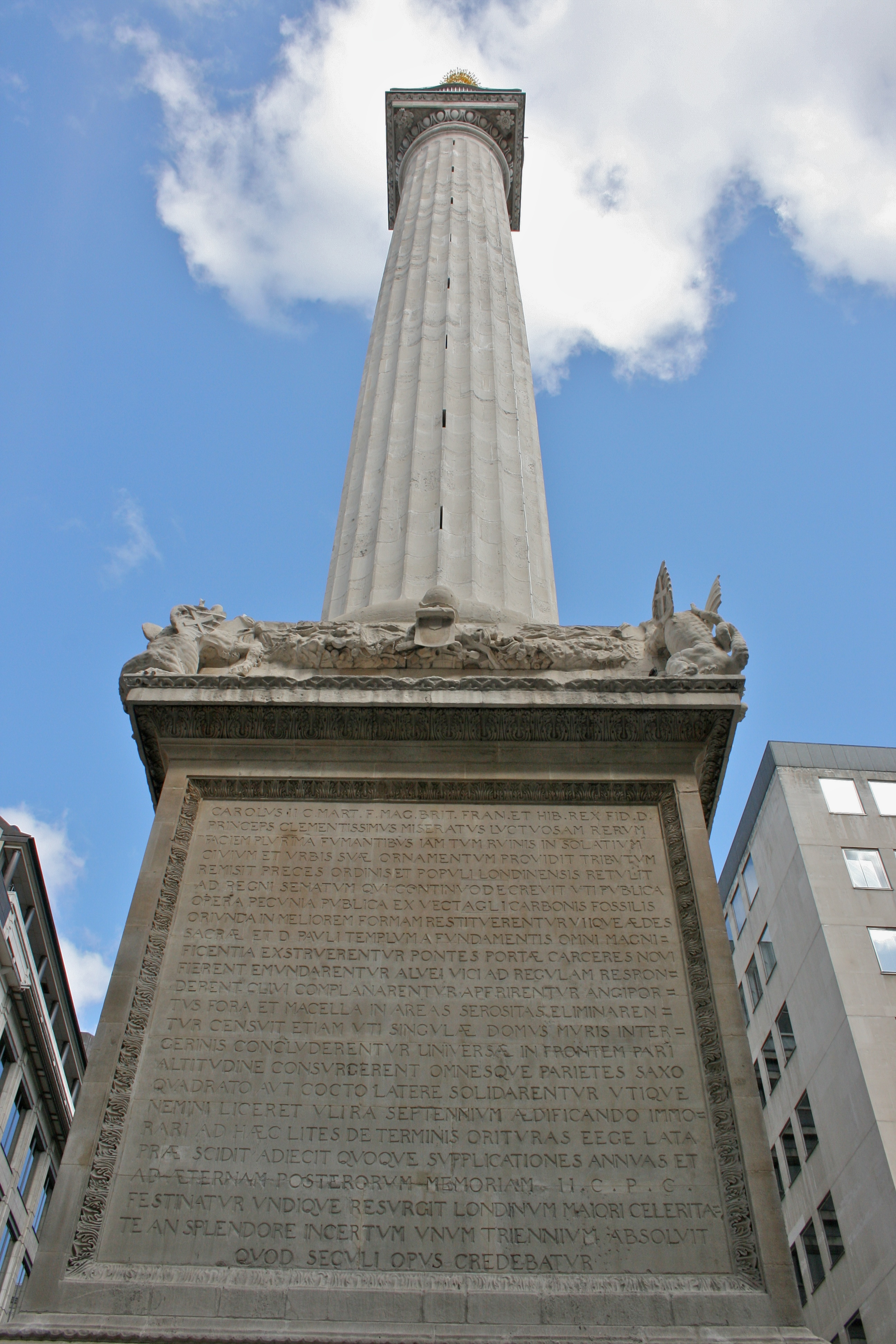 The Monument to the Great Fire of London, London.